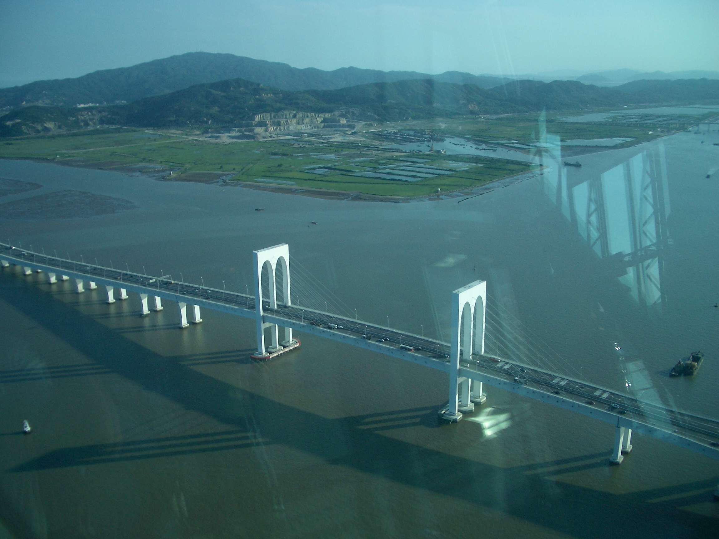 i took the picture. Hengqin Island (the northwestern corner of it facing us) and Sai Wan bridge, looking south from Macau Tower. other_versions=